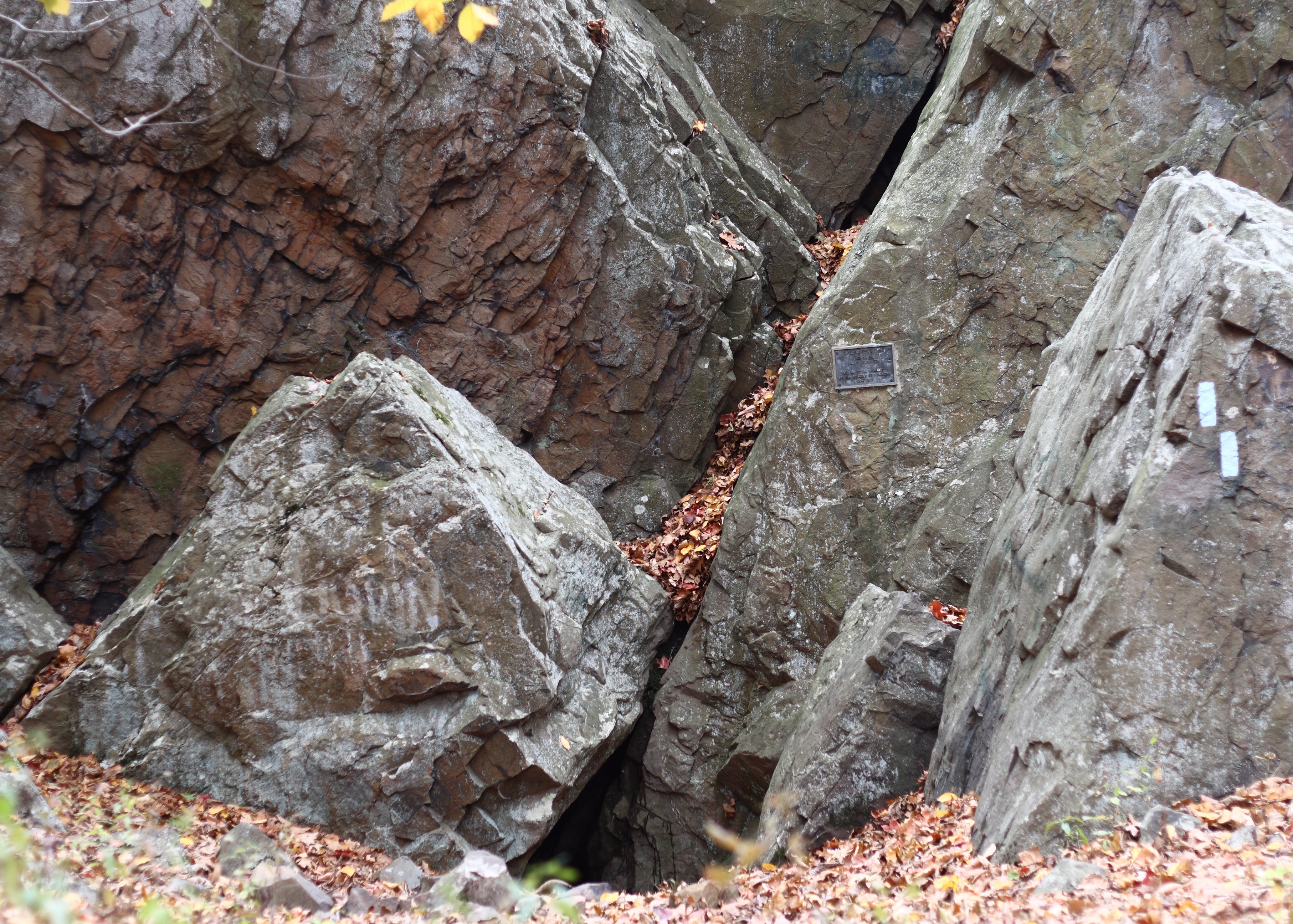 The main entrance point to Will Warren's Den on Rattlesnake Mountain